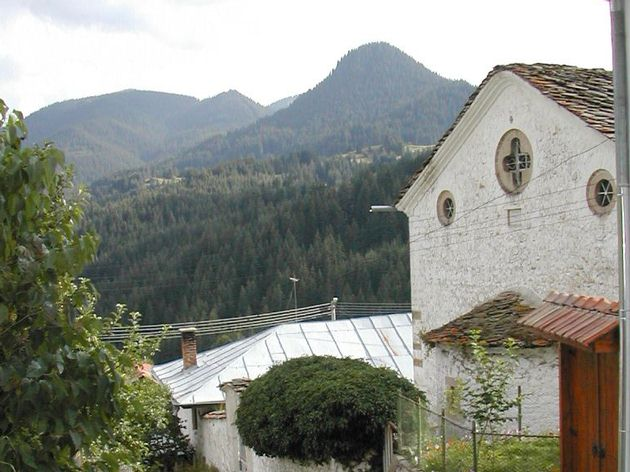 Solishta - the church